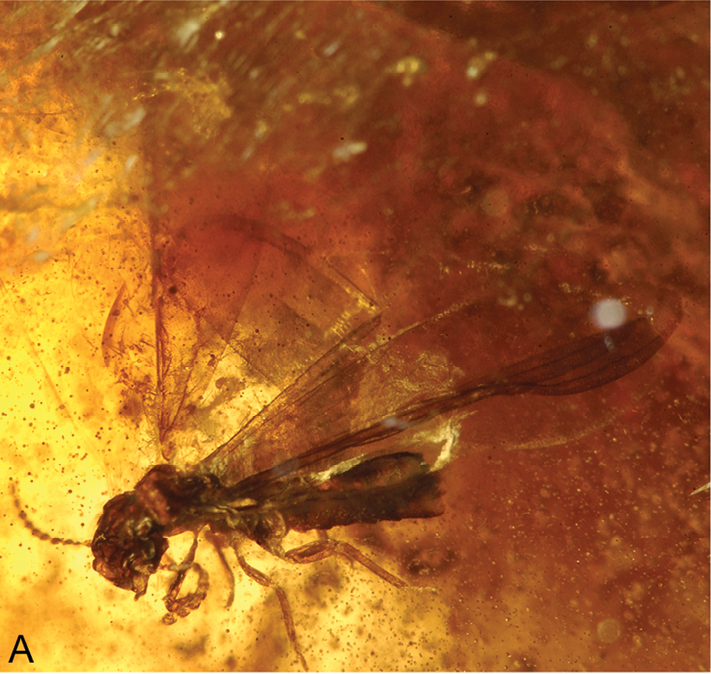 Photomicrograph of Cambay amber (Early Eocene) termites. A Nanotermes isaacae Engel & Grimaldi, gen. et sp. n., holotype (Termitidae: Tad-262)